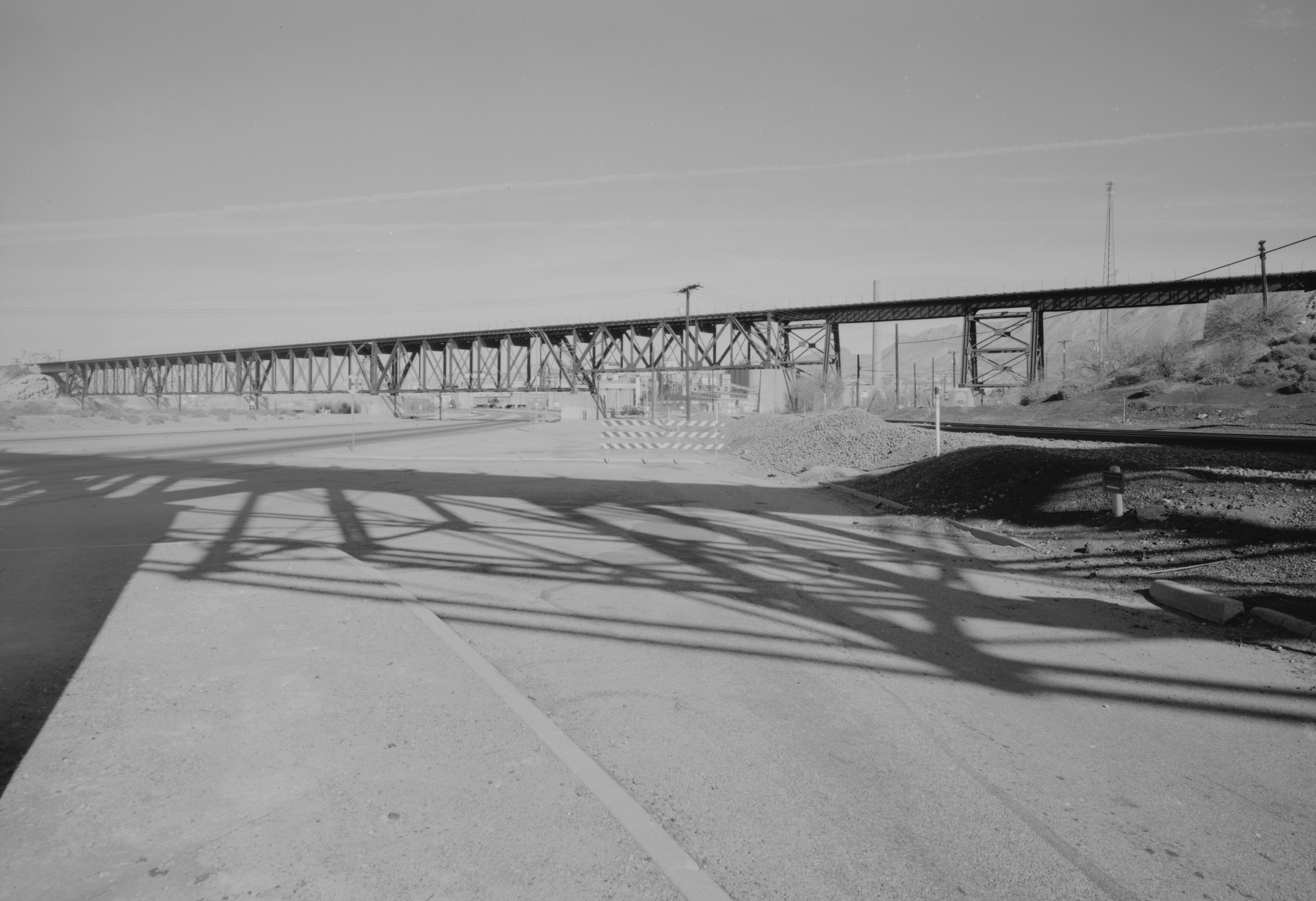 El Paso and Southwestern Railroad bridge spanning the Rio Grande River El Paso, El Paso County, Texas. Historic American Engineering Record, Prints and Photograph Division, Library of Congress. HAER TX,71-ELPA,8-1